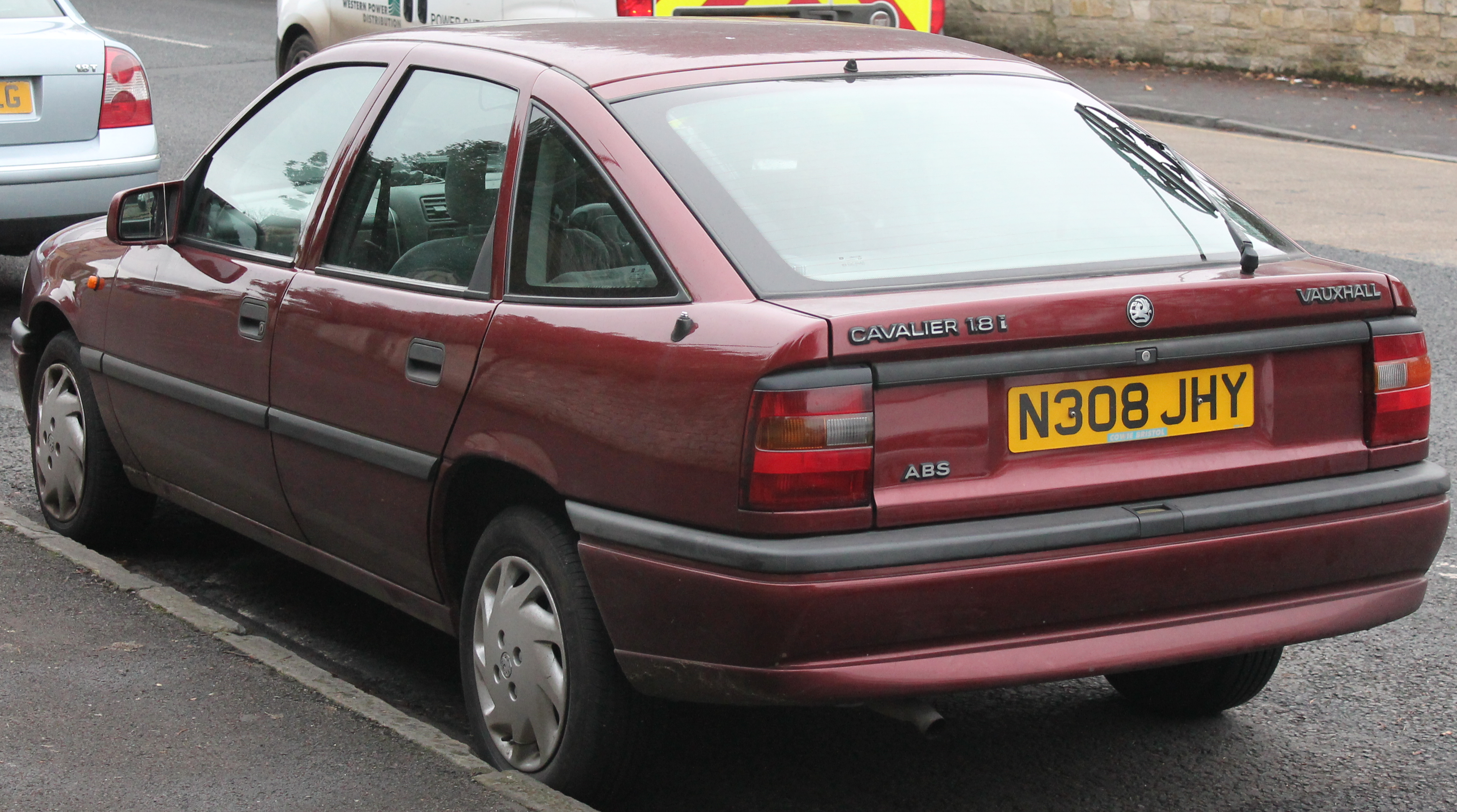 It's quite uncommon to see Cavaliers as tidy as this nowadays, seeing as most examples are over twenty years old! But this one was in that lovely maroon colour which is fairly popular on these seemingly, and comes complete with original wheel trims and rear plate. Really didn't look its age at all, indeed it could have come out the showroom a year ago. Just over two weeks younger than me too. Registration number: N308 JHY ✔ Taxed Tax due: 01 March 2015 ✔ MOT Expires: 27 August 2015